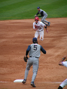 Photo from a baseball game between the University of Utah and Brigham Young University played March 20, 2007 at Spring Mobile Ballpark in Salt Lake City. Utah won this game 8-4.